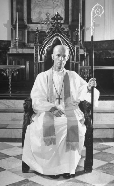 Mine